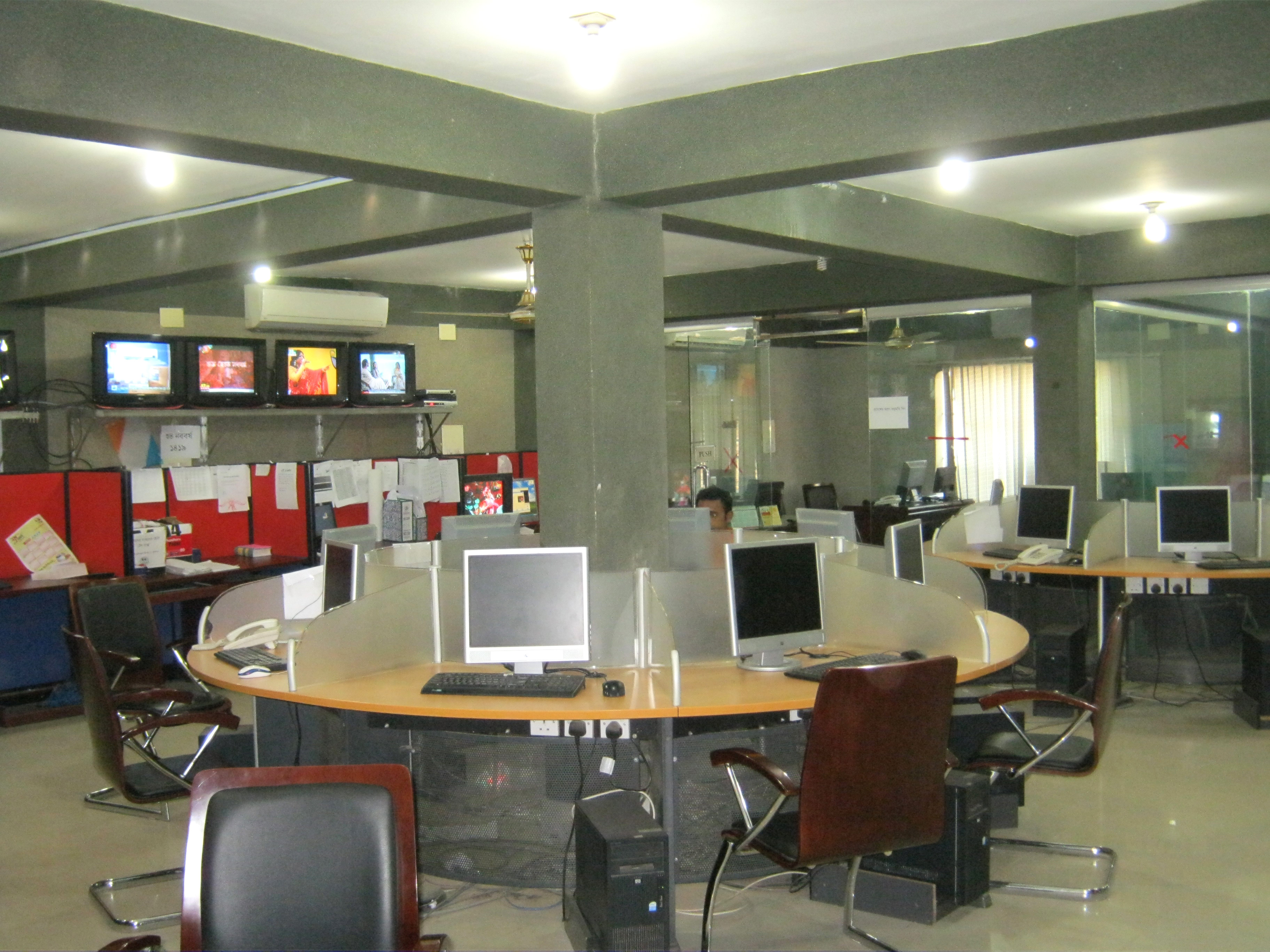 Newsroom of Mohona Television by Rezowan